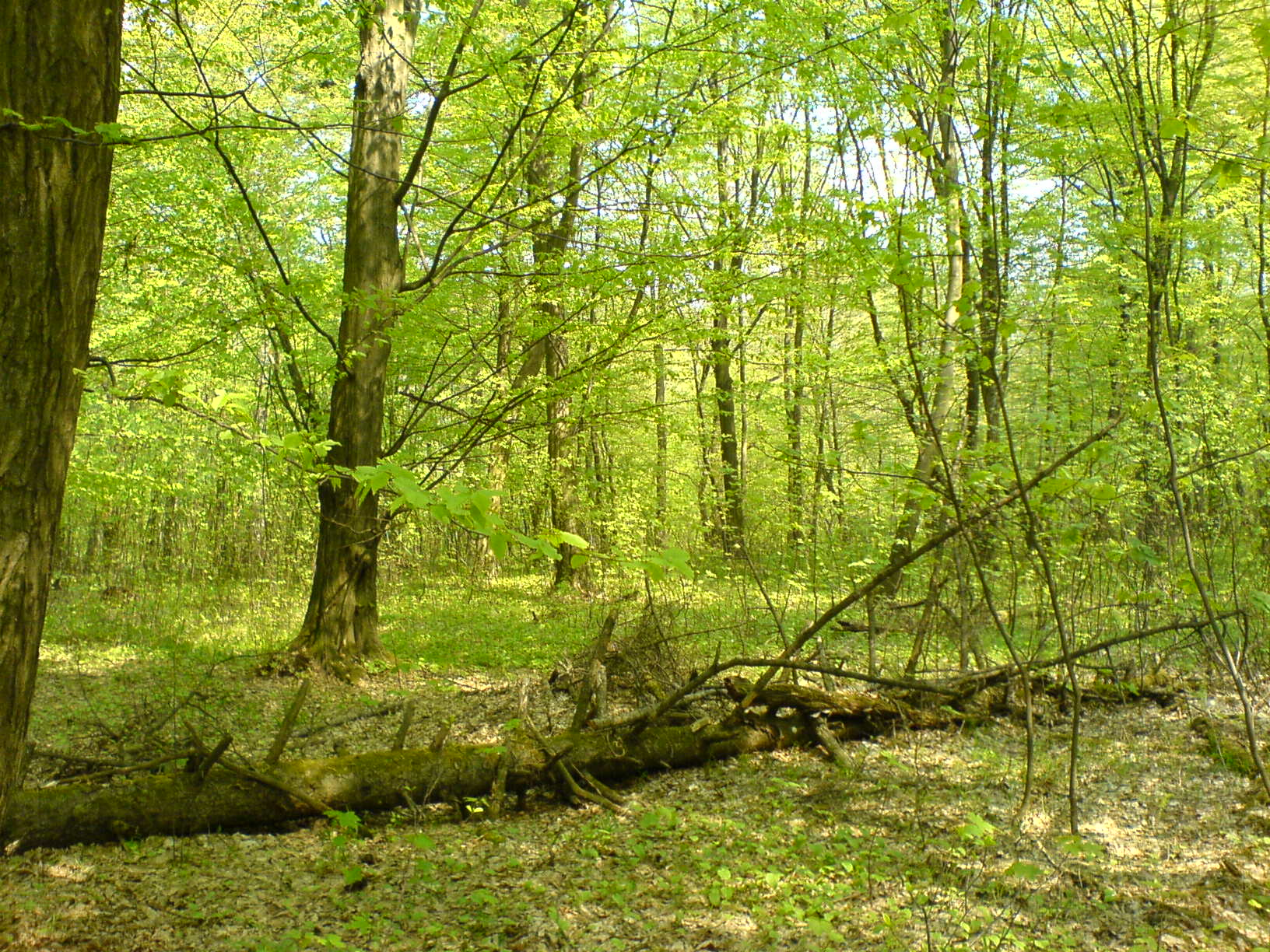 Poland, forest nature reserve "Grady nad Moszczenica", at Moszczenica river